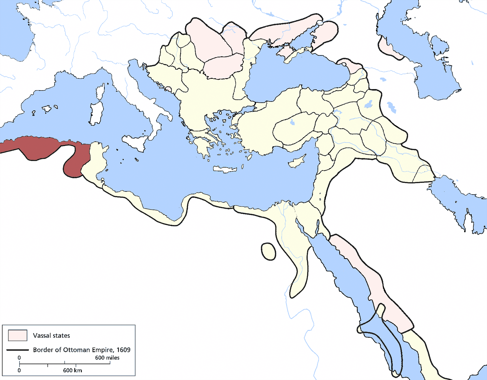 Algiers Eyalet, Ottoman Empire (1609). Source: Encyclopedia of the Ottoman Empire at Google Books By Gábor Ágoston, Bruce Alan Masters